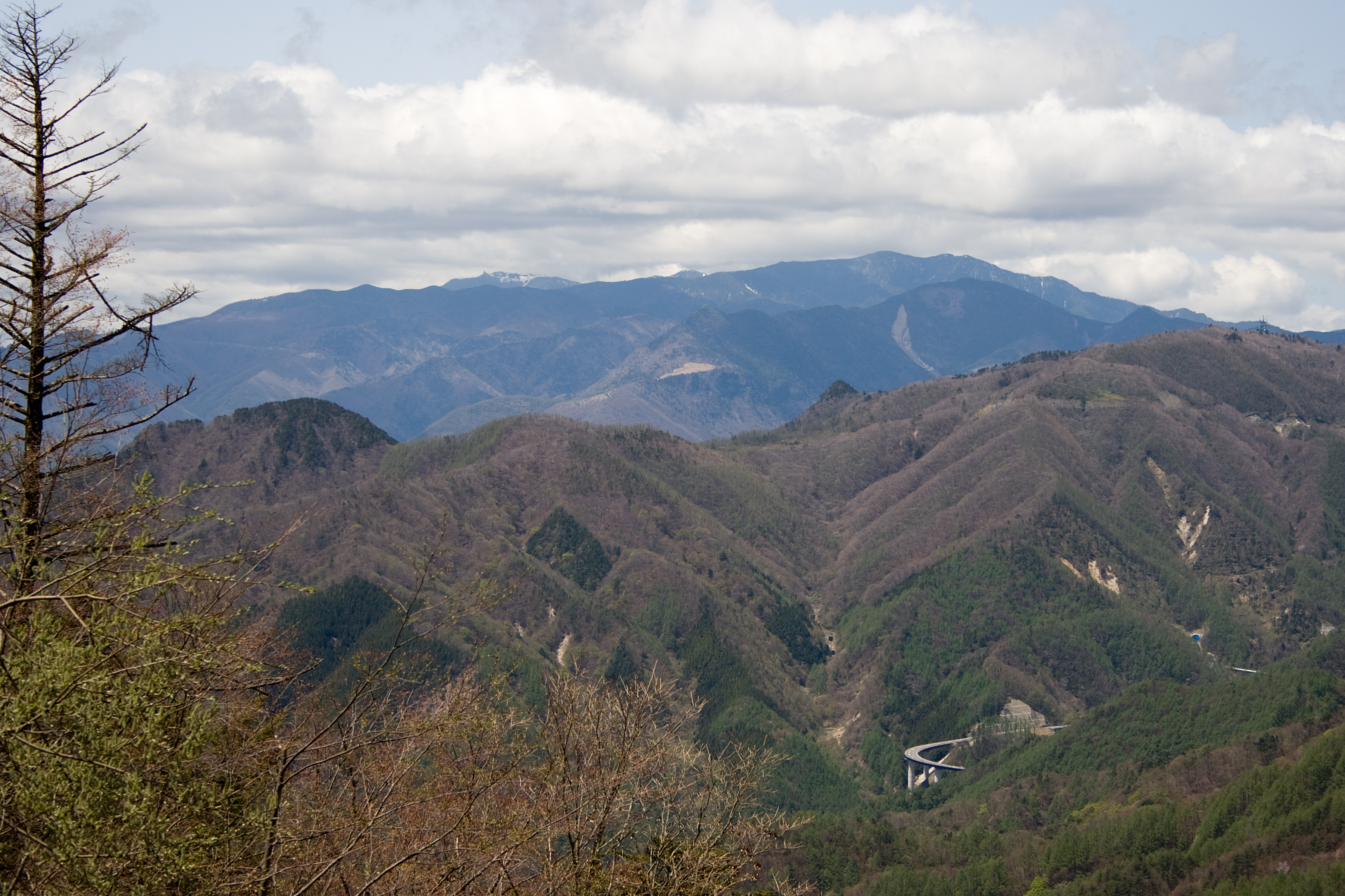 Okuchichibu Mountains seen from Mt.Daibosatsurei, Yamanashi, Japan.